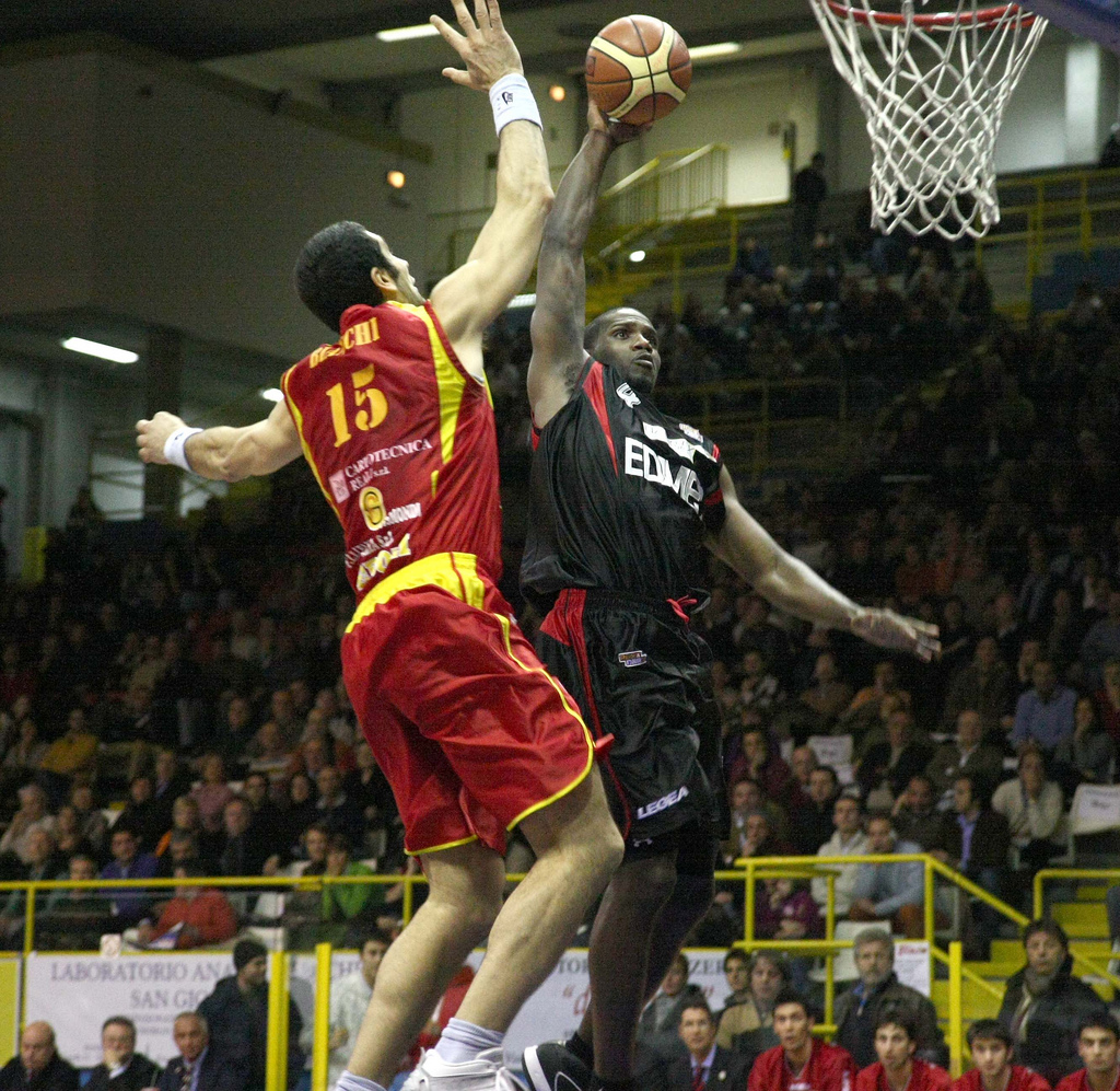 Thomas Mobley